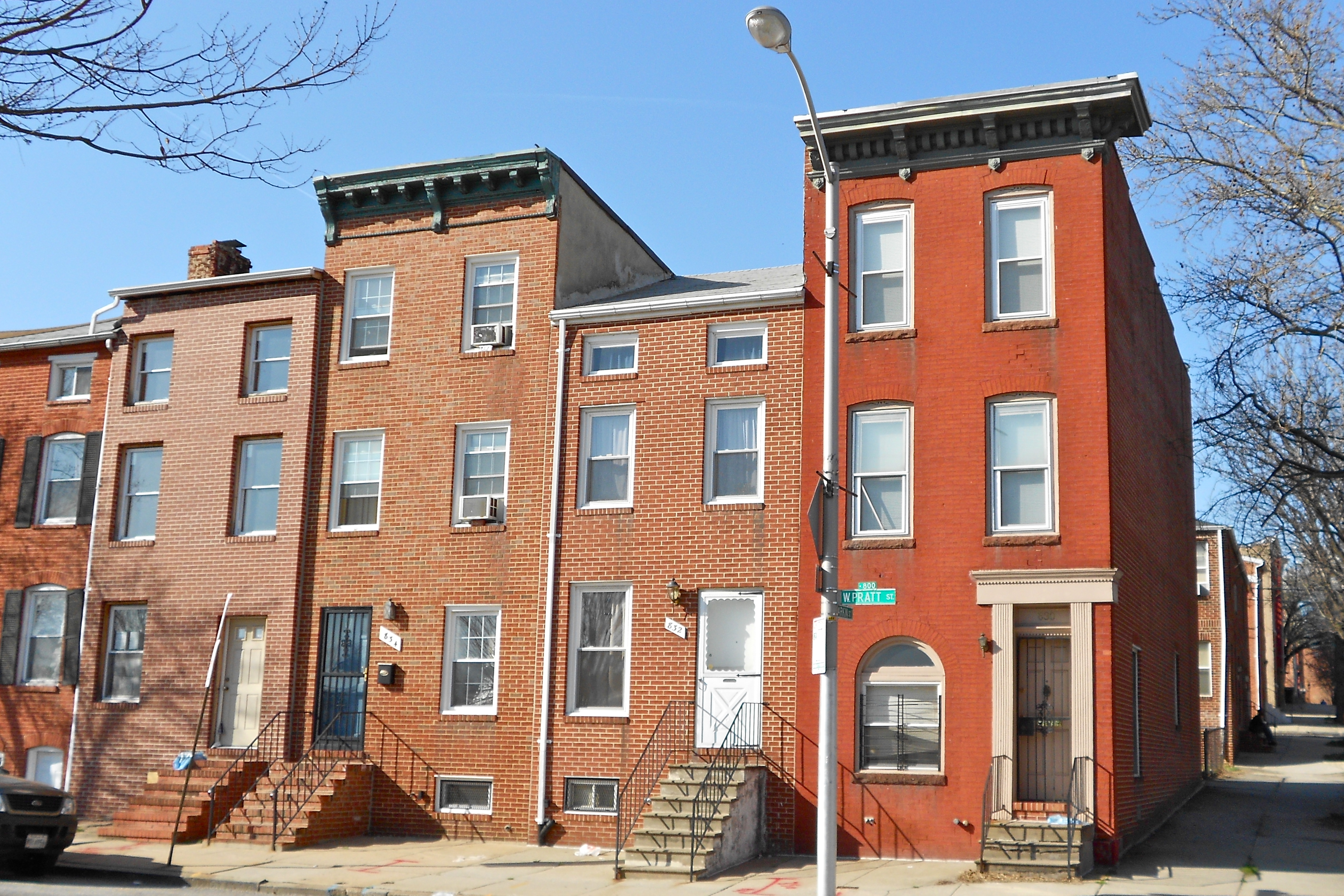 Hollins-Roundhouse Historic District on the NRHP since July 22, 2009 W. Baltimore and Schroeder Sts., south on Schroeder to Lombard; west on Lombard to Carey, south to Pratt, and east on Pratt to Hayes in west Baltimore, Maryland. These buildings are on the northwest corner of Pratt and Parkin Streets (a half block west of Hayes) near the Roundhouse.